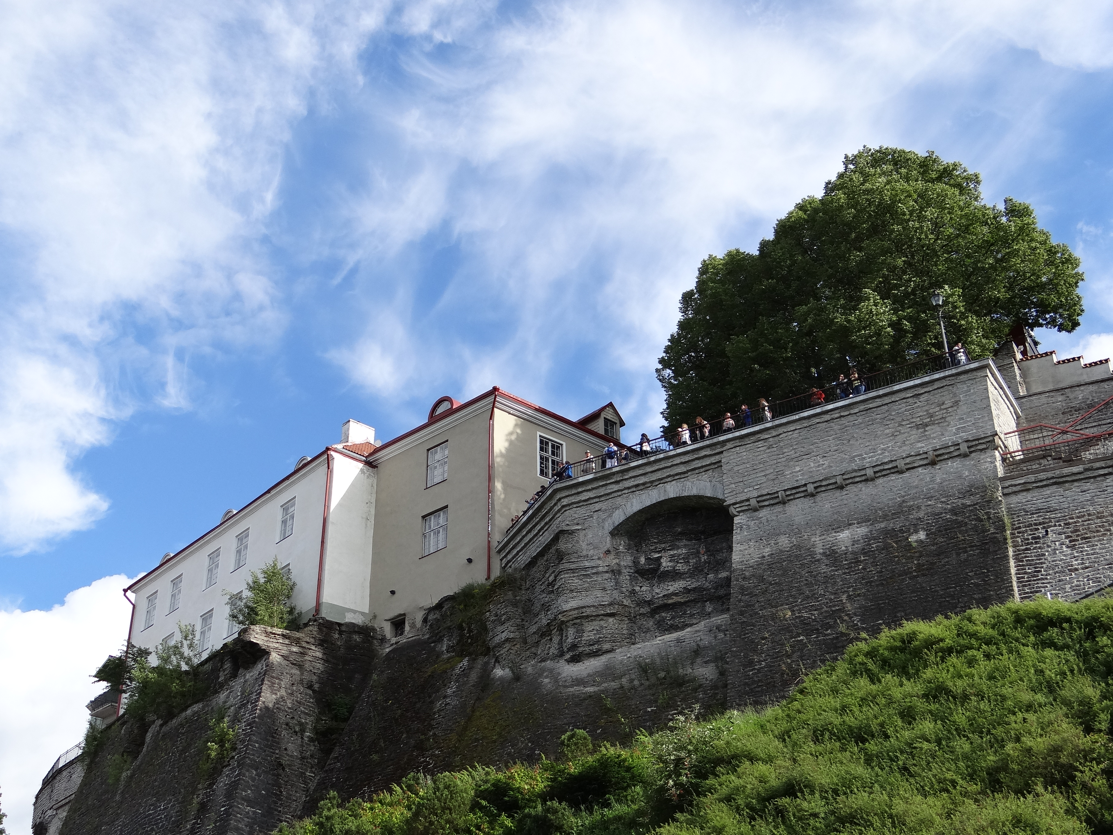 View toward Toompea. Old Town, Tallinn, Estonia